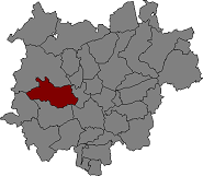 Location of Fonollosa in Bages